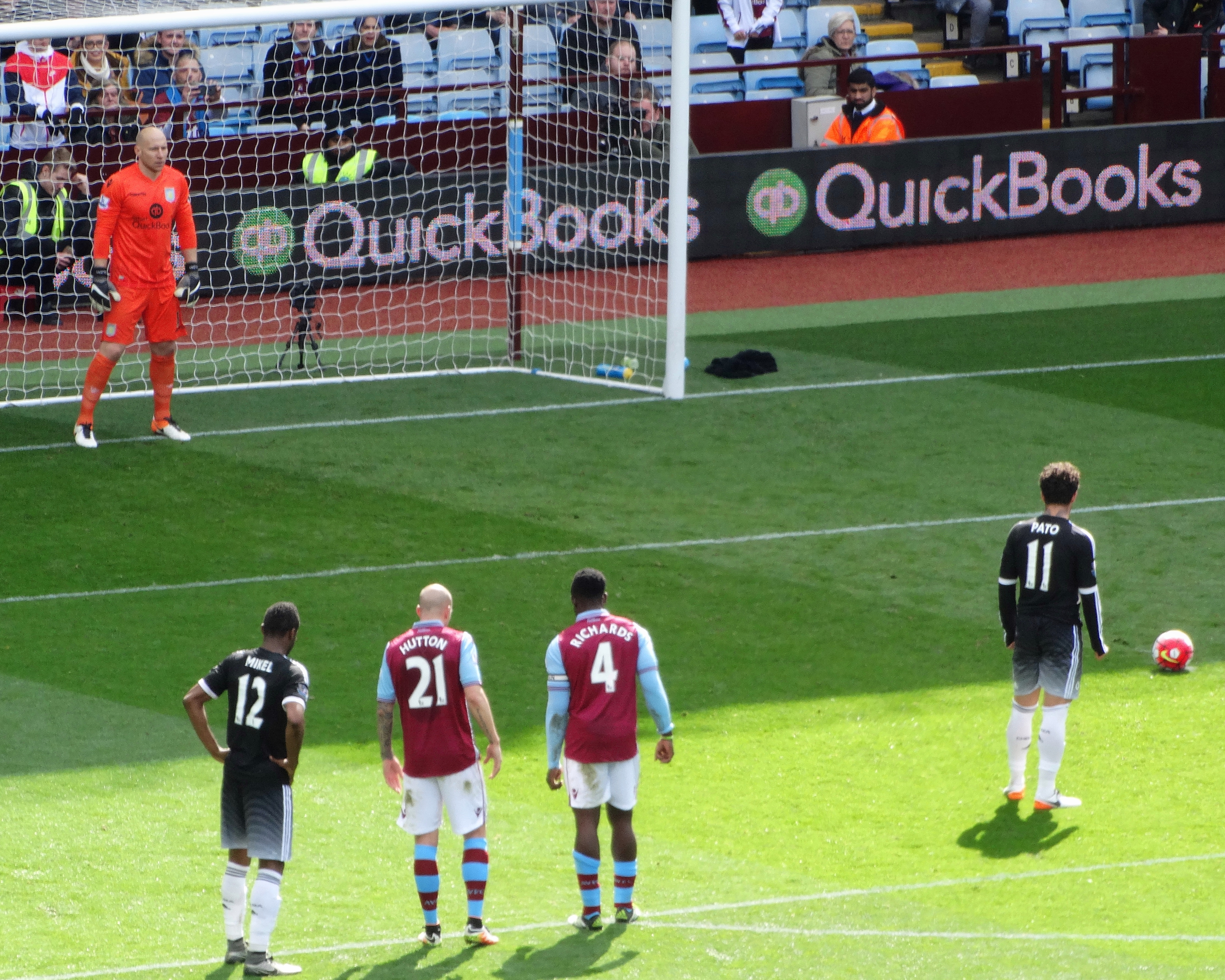 Alexandre Pato taking a penalty on his debut for Chelsea in April 2016.